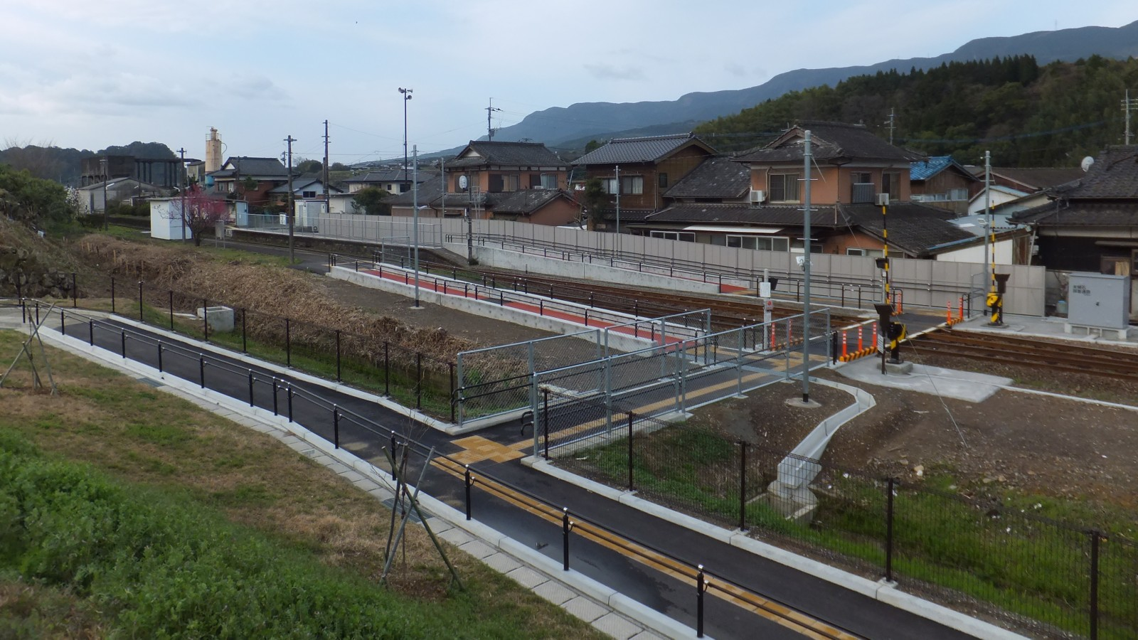 Renovated passageway at Meotoishi Station